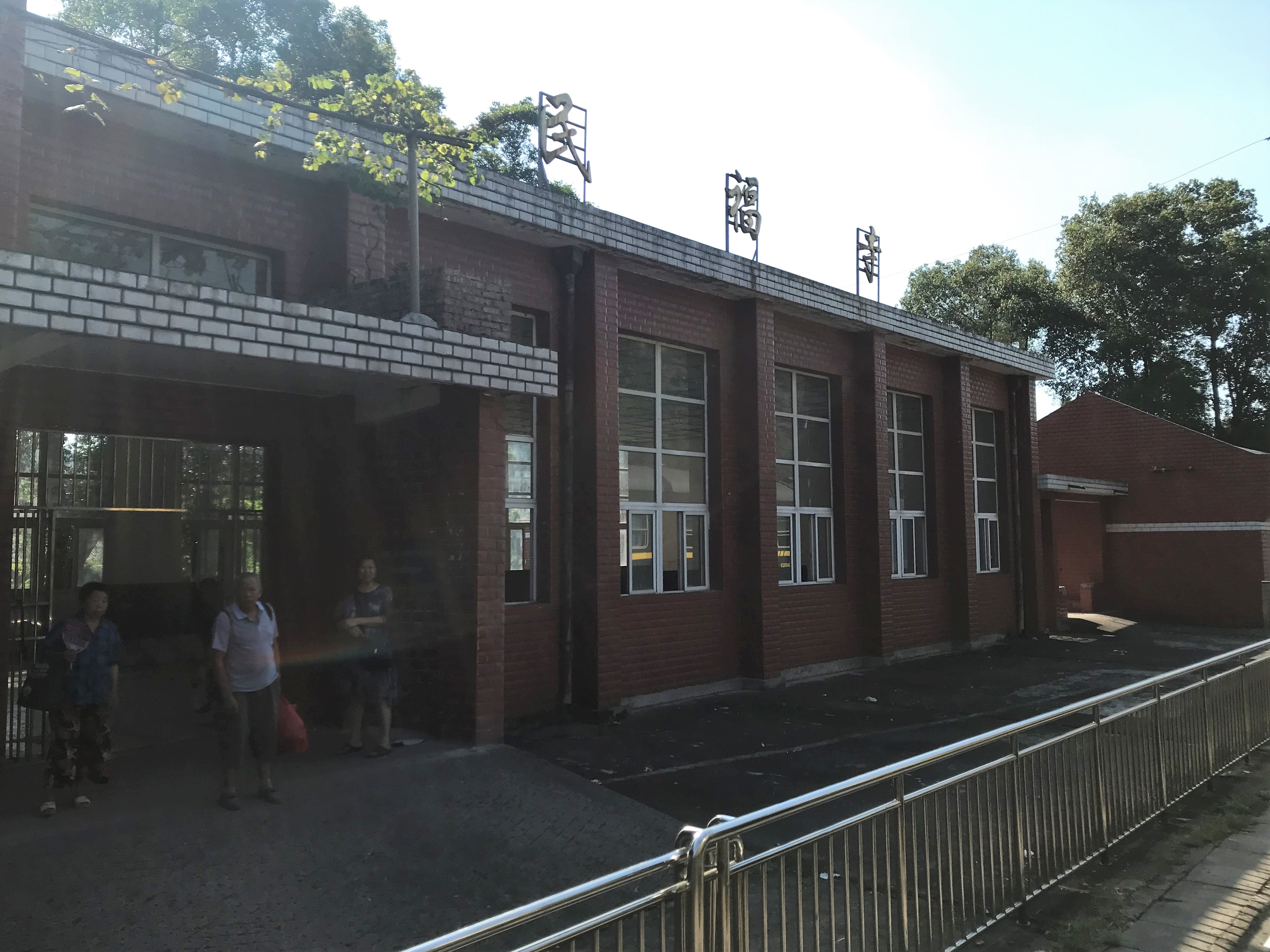 201908 Station Building of Minfusi (2)